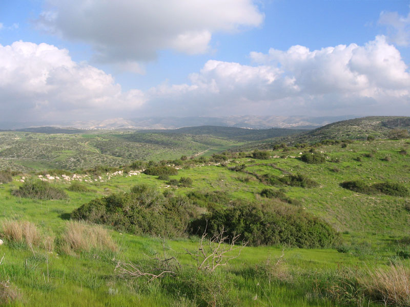 Shephelah in Israel.